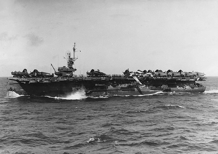 USS Attu (CVE-102) underway in the western Pacific, after passing through a typhoon on the morning of 5 June 1945. Note the upended airplanes on her deck, including at least three TBMs.